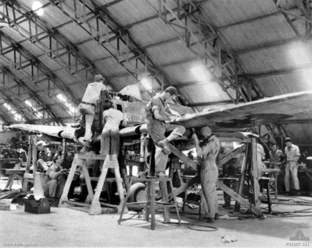 A captured Japanese Nakajima Ki-43-IB Hayabusa being rebuilt by the Technical Air Intelligence Unit (TAIU) in Hangar 7 at Eagle Farm, Brisbane, Queensland (Australia), in 1943. It was painted with Japanese markings for recognition photos but flown with US markings.